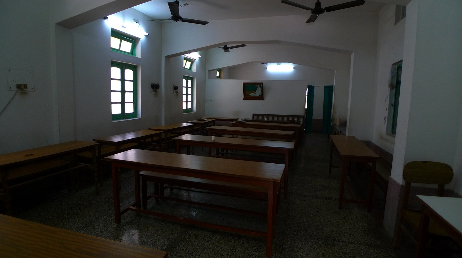 Dining Hall